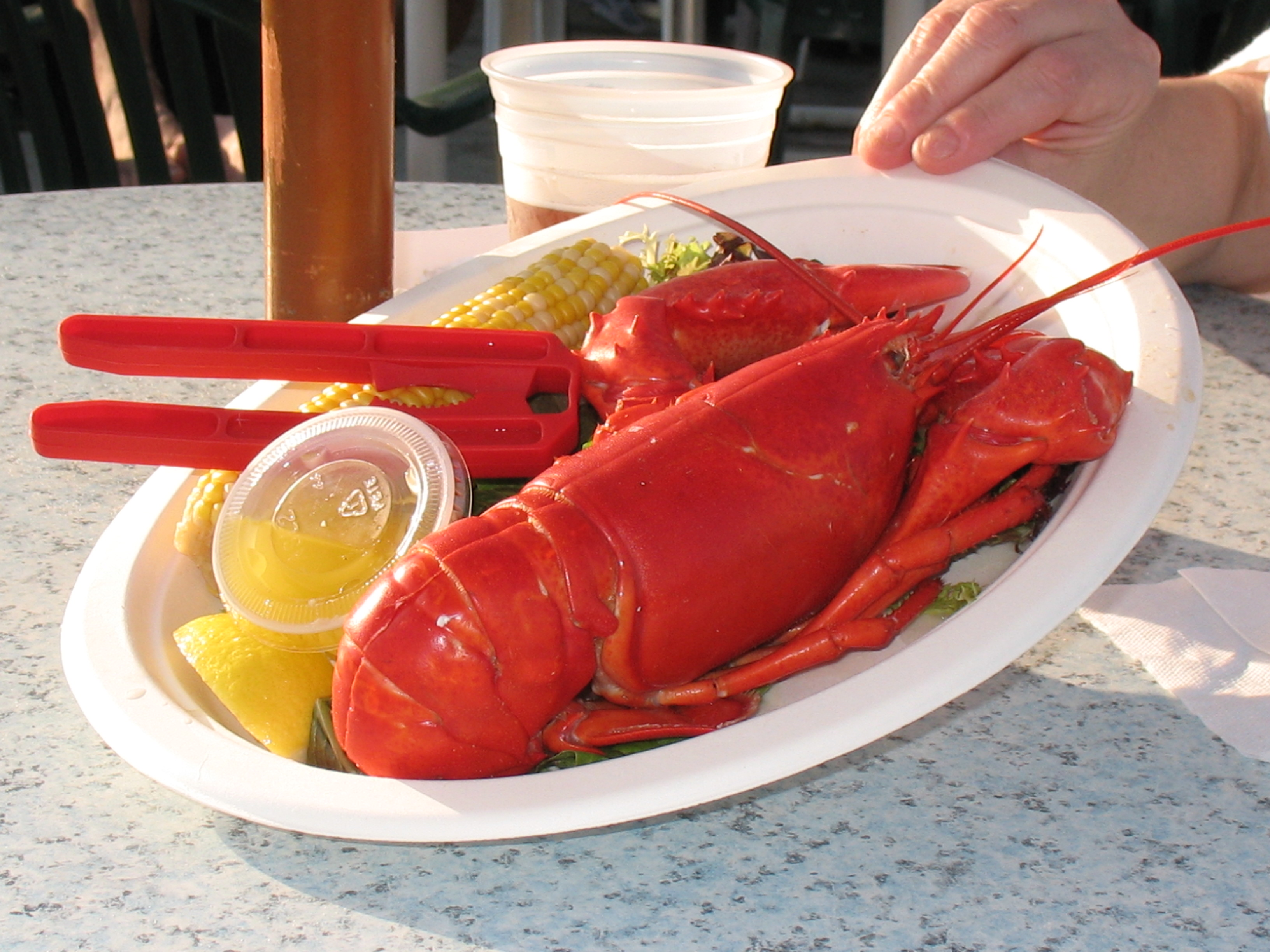 A Long Islanders fast food Yummy ...by Stevan